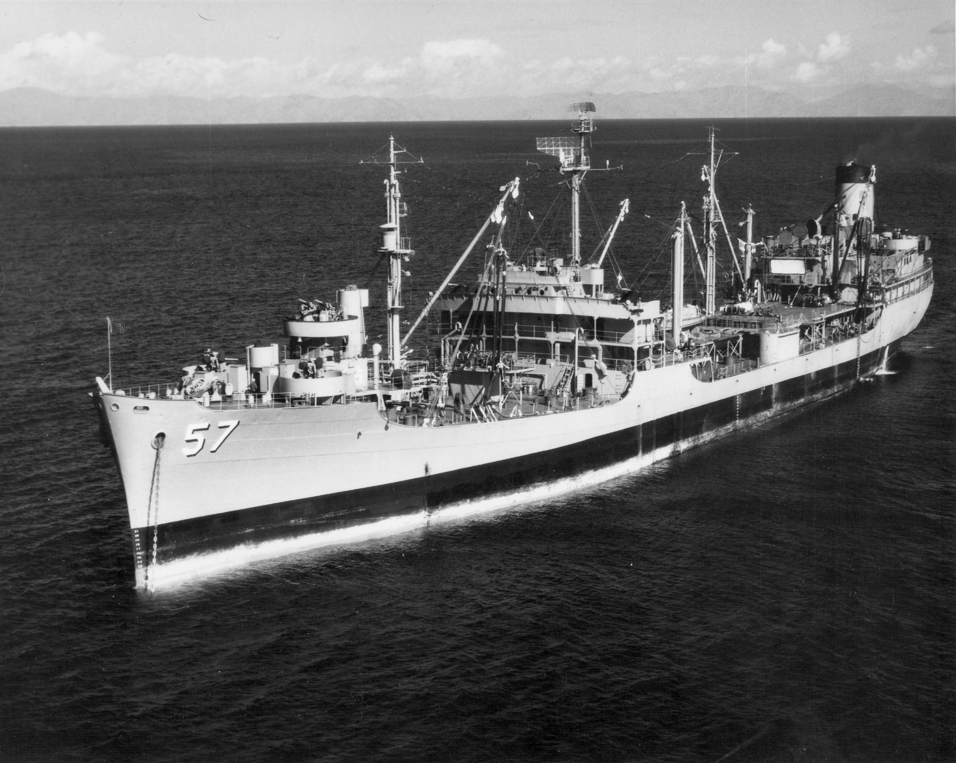 The U.S. Navy Cimarron-class fleet oiler USS Marias (AO-57) at sea, 1957-1960.